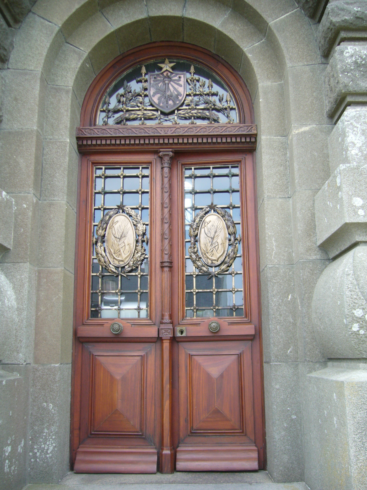 Eckmühl lighthouse's door.